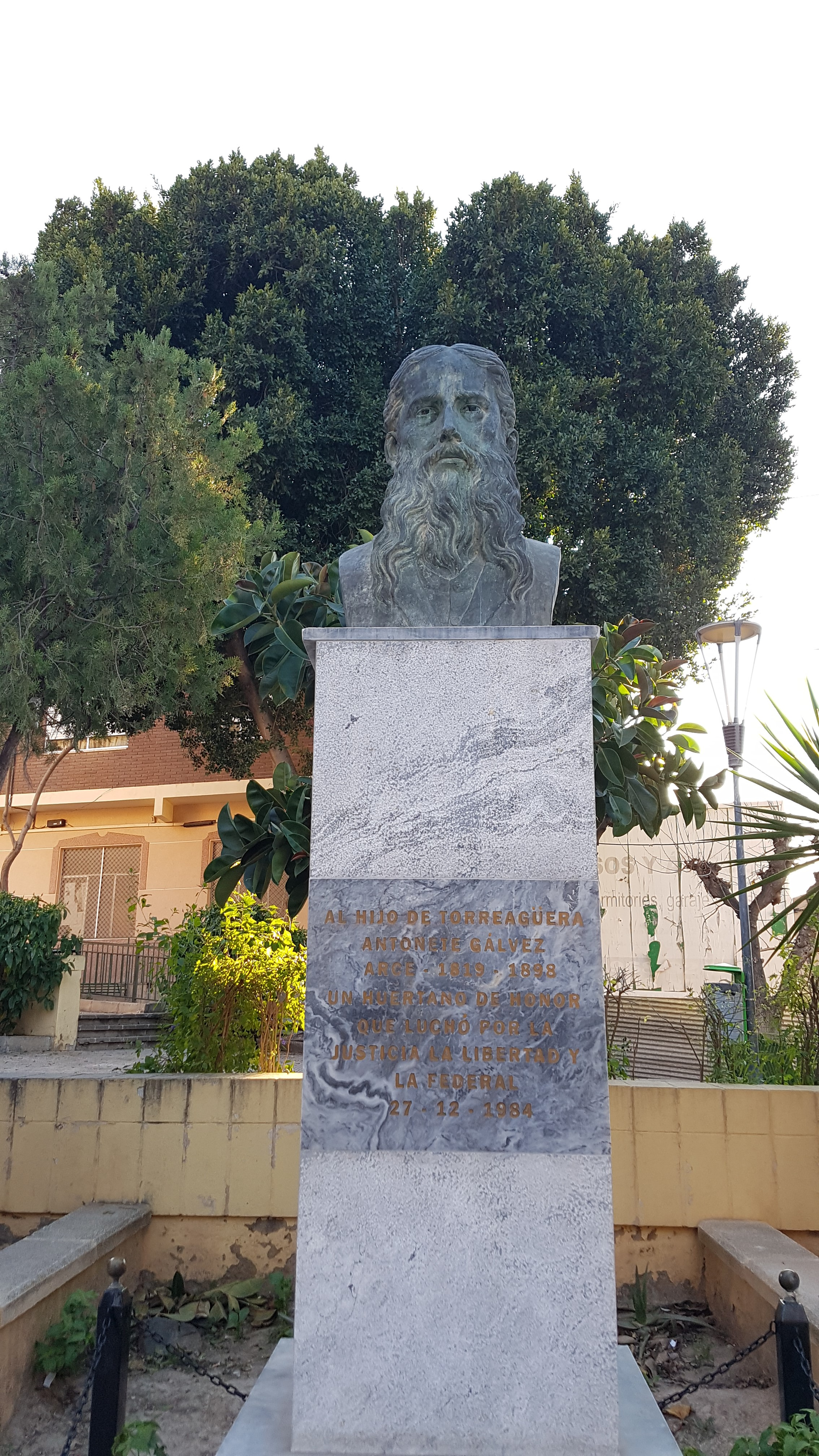 Bust of Antonio Gálvez Arce, work of the sculptor José Hernández Navarro (1984). It is located in Antonete Gálvez Square in Torreagüera, Murcia, and its inscription reads: «To the son of Torreagüera Antonete Gálvez Arce 1819-1898, an honorable huertano who fought for justice, freedom and the [federal] republic».